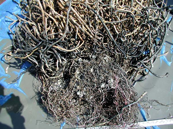 Roots of a tubeworm bush (family Siboglinidae) from the Gulf of Mexico. This is one of the bushes that we collected this summer after using the “Big Sucker” sampling device. We are currently measuring all of the tubeworms in the bush along with all of their roots.